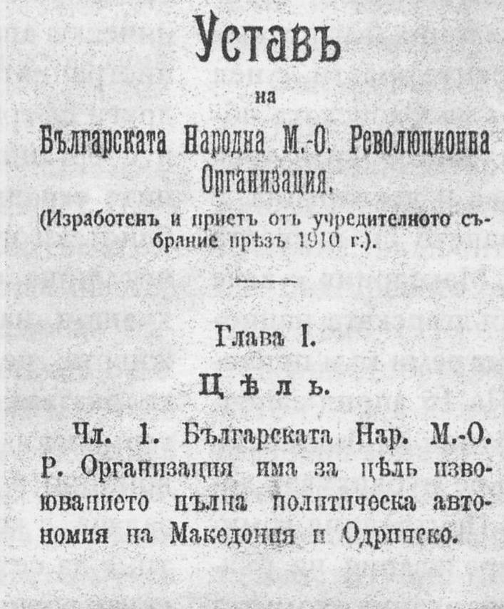 Statute of BNMORO